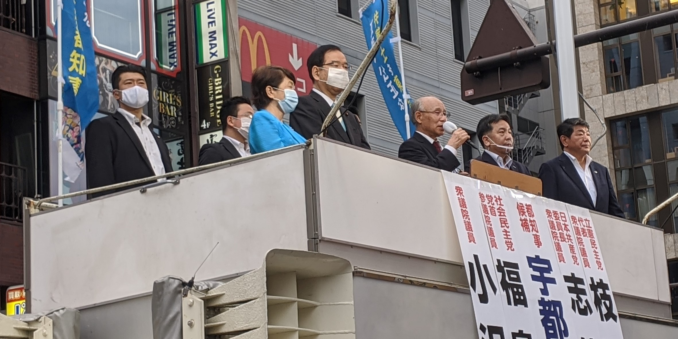 Utsunomiya Kenji (candidate of Tokyo gubernatorial election), Fukushima Mizuho, Shii Kazuo, and Edano Yukio(June 18, 2020, Minato City, Tokyo)